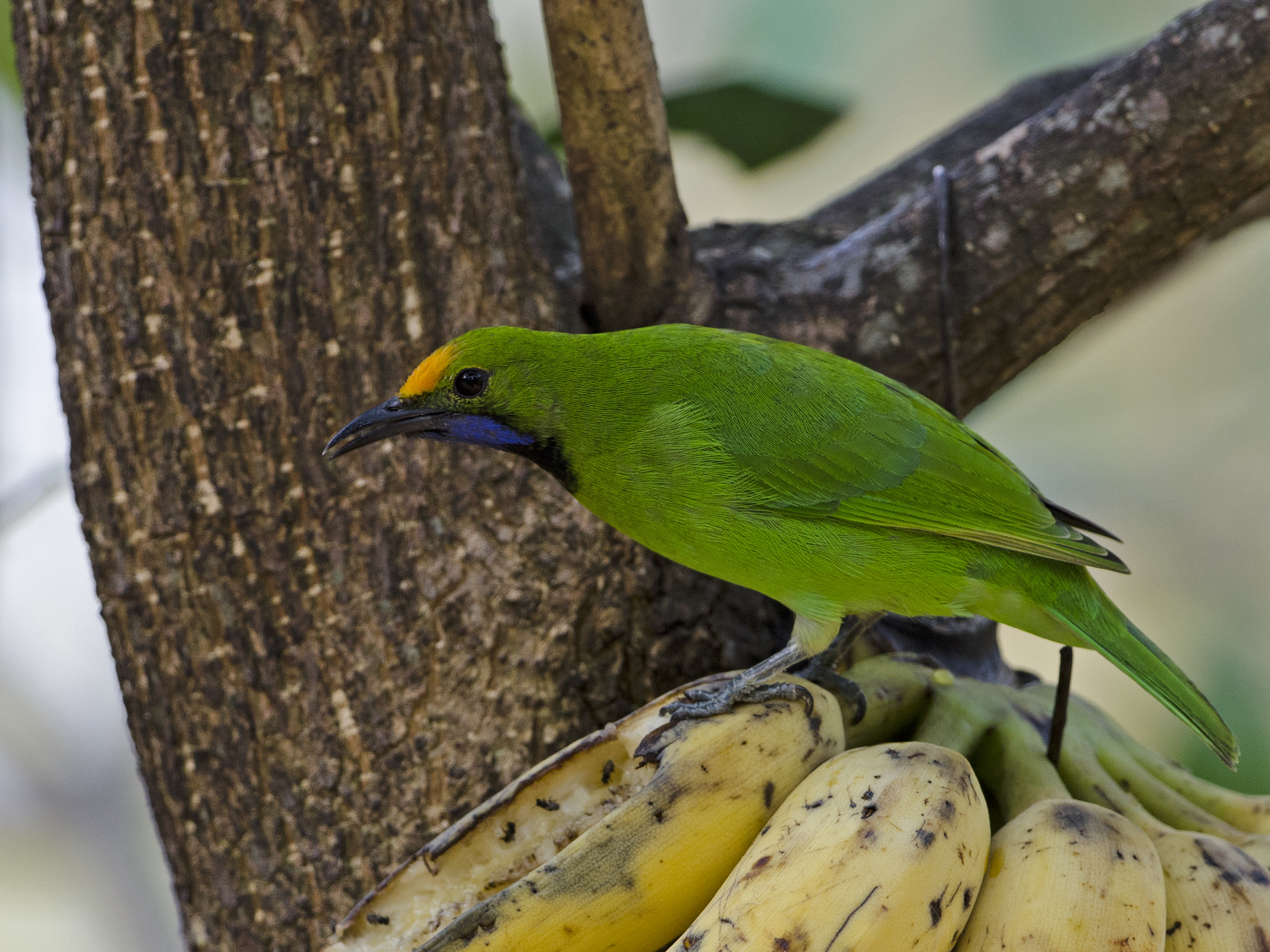 Golden-fronted Leafbird (Chloropsis aurifrons) at Ban Song Nok, Near Kaeng Krachan National Park, Thailand